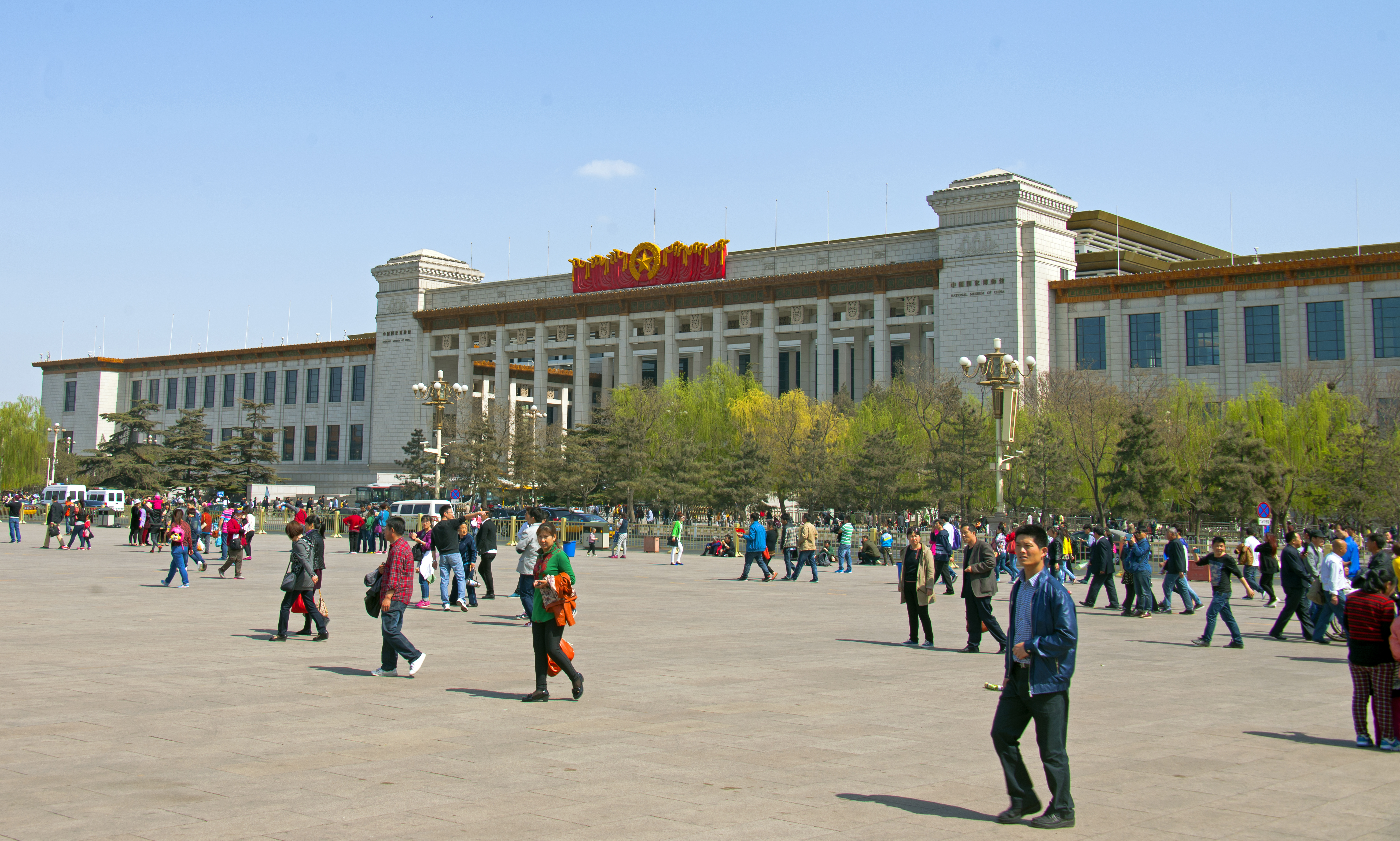 National Museum of China seen from Tiananmen Square